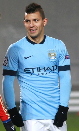 Sergio Aguero playing for Manchester City in a Champions League clash against CSKA Moscow on 21 October 2014.